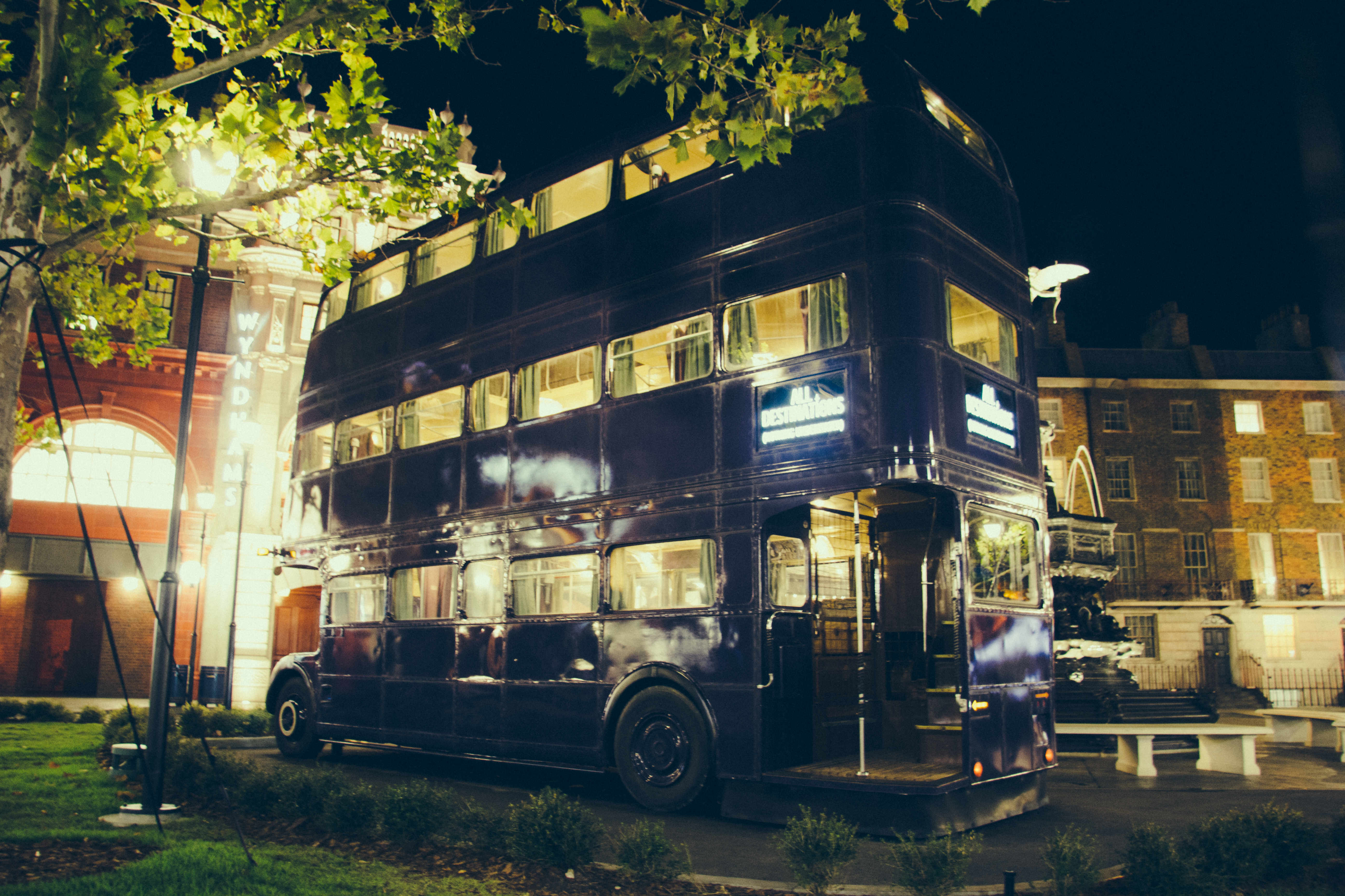 The Night Bus - The Wizarding World of Harry Potter Universal Studios Orlando